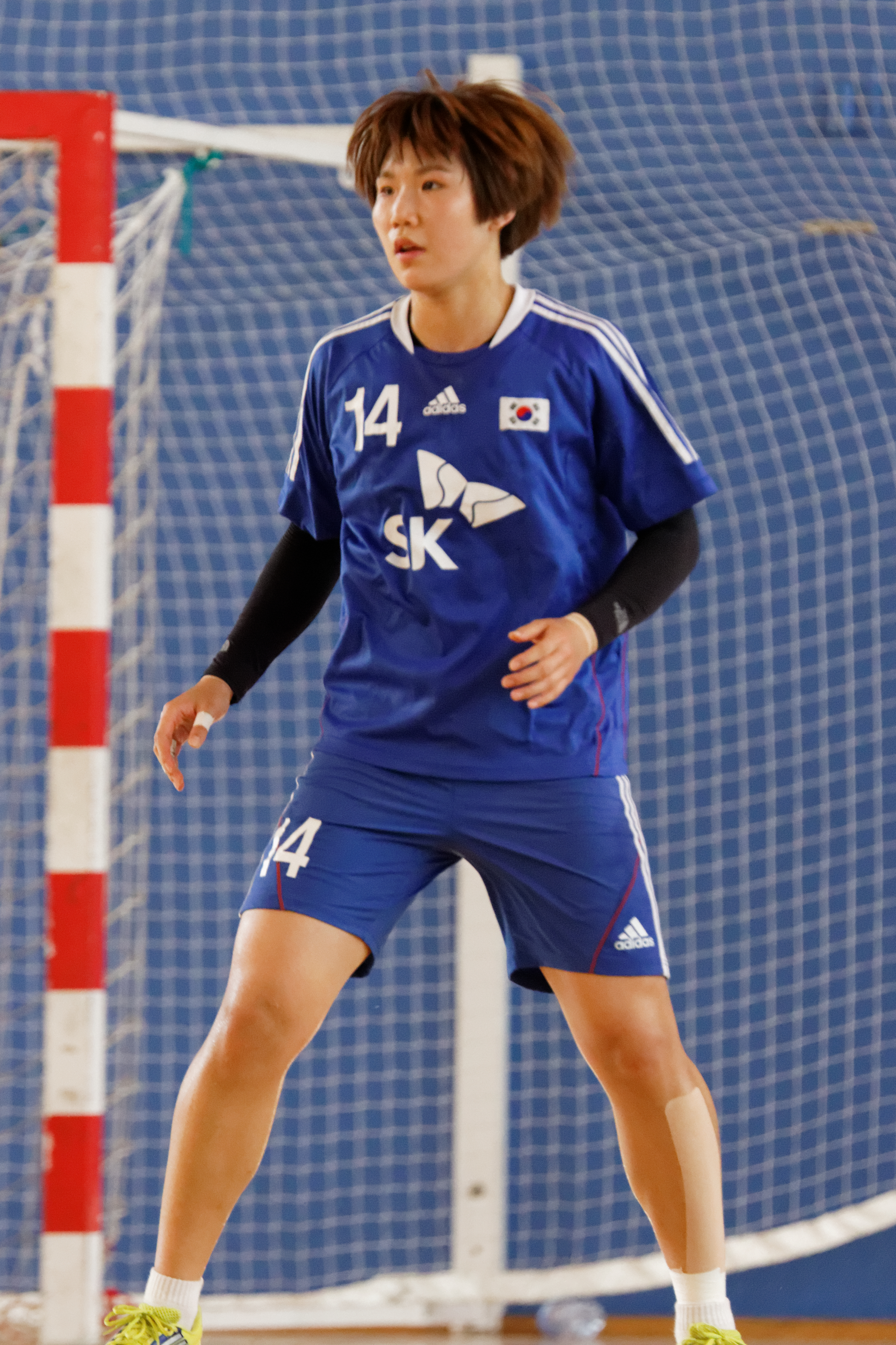 Issy Paris Hand - South Korea, 12 August 2014